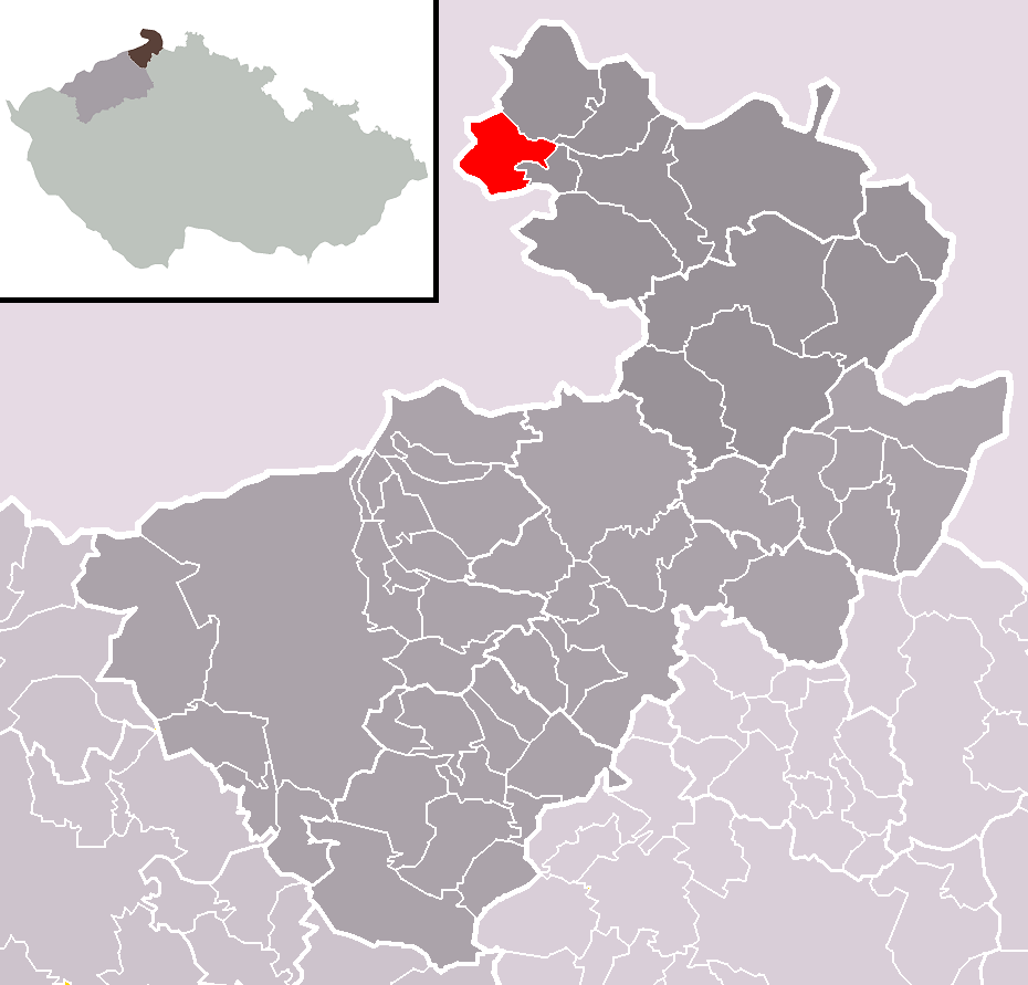 Location of Dolní Poustevna town within Děčín District and administrative area of Rumburk as a Municipality with Extended Competence.